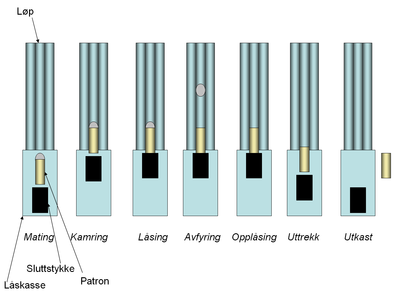 Author Harald Hansen Description A simple diagram explaining a Gatling gun feed cycle.